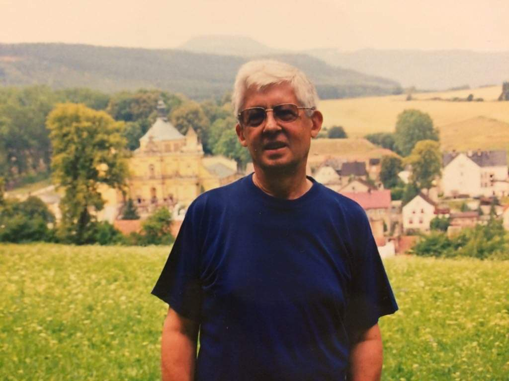 Polish composer.